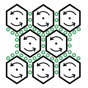 This is a simple drawing of James Maxwell's molecular vortex model